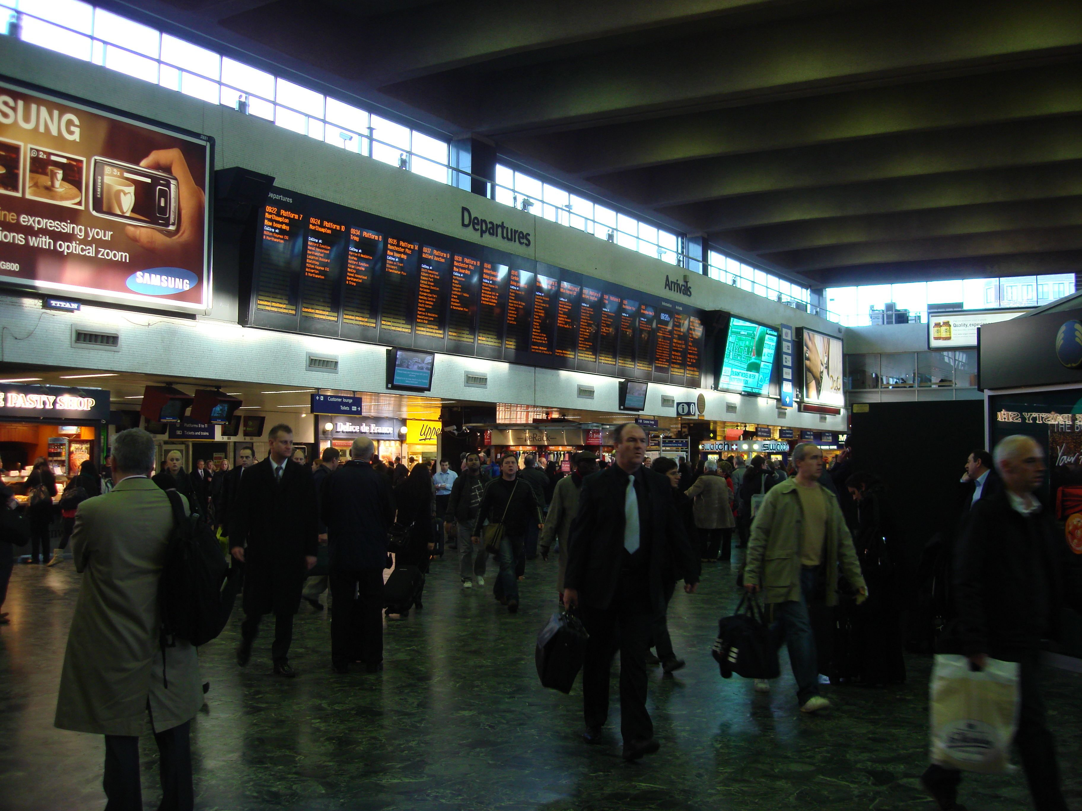 Euston station, London, UK